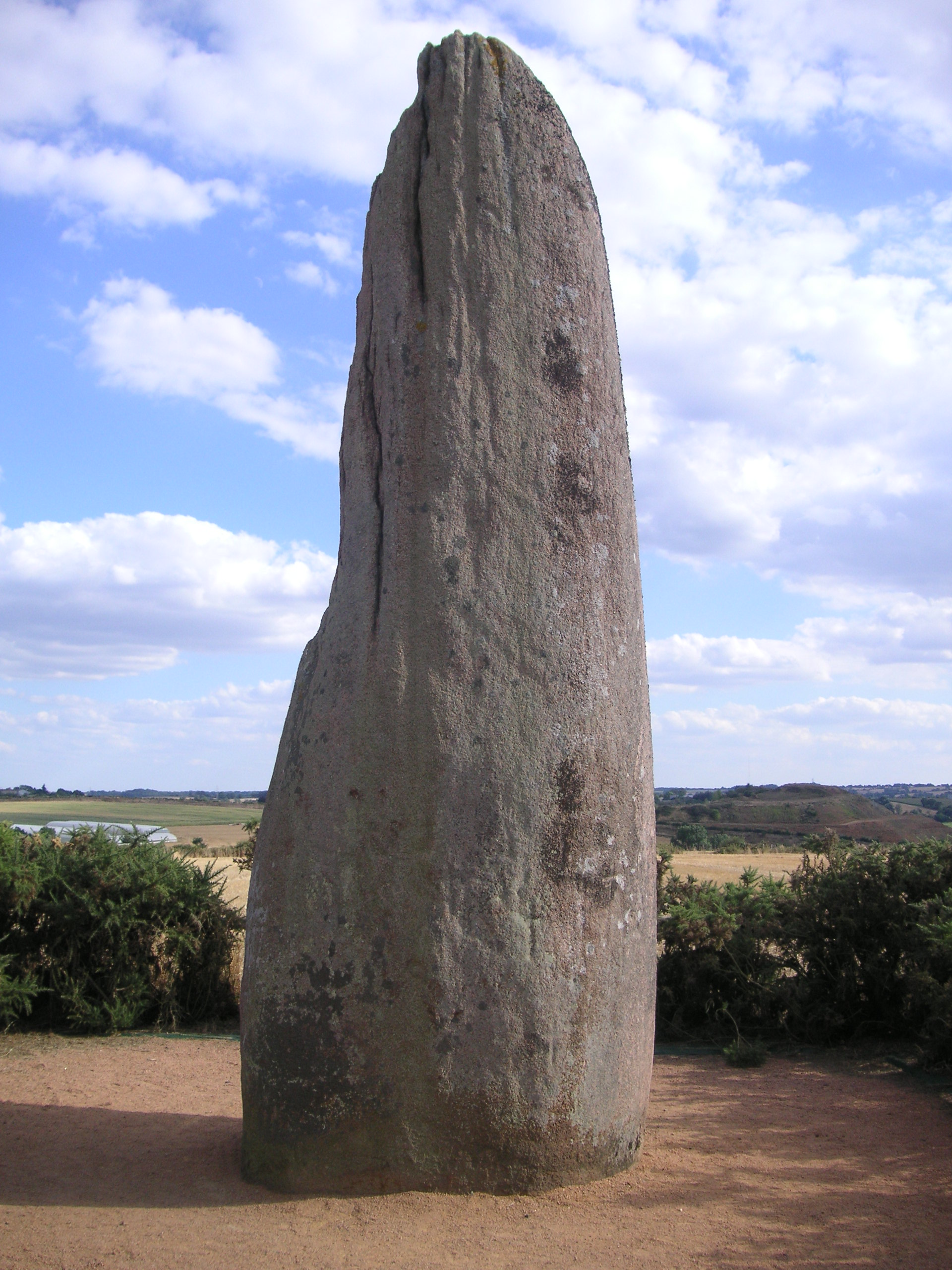 A photo of the Saint-Macaire-En-Mauges menhir "La Grande Pierre Levée", Pays de la Loire, France.